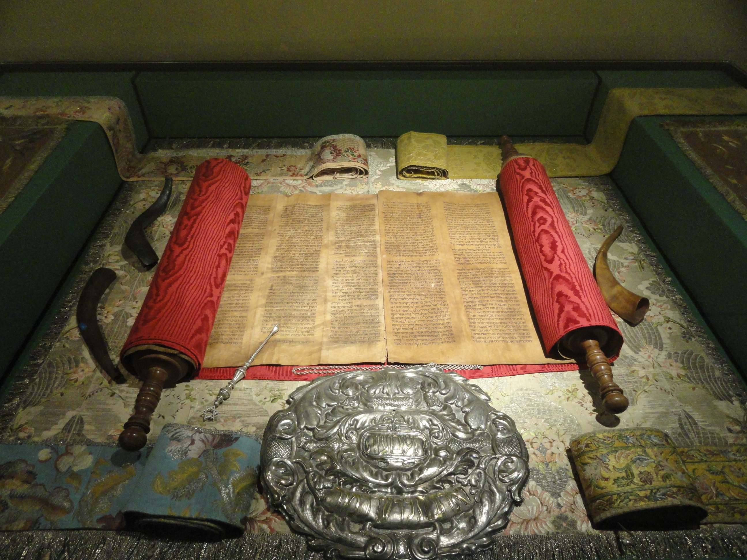 Torah scroll of the 17-18th century, written on leather. Displaid at the Museum of the synagogue of Casale Monferrato in Piemonte - Italy